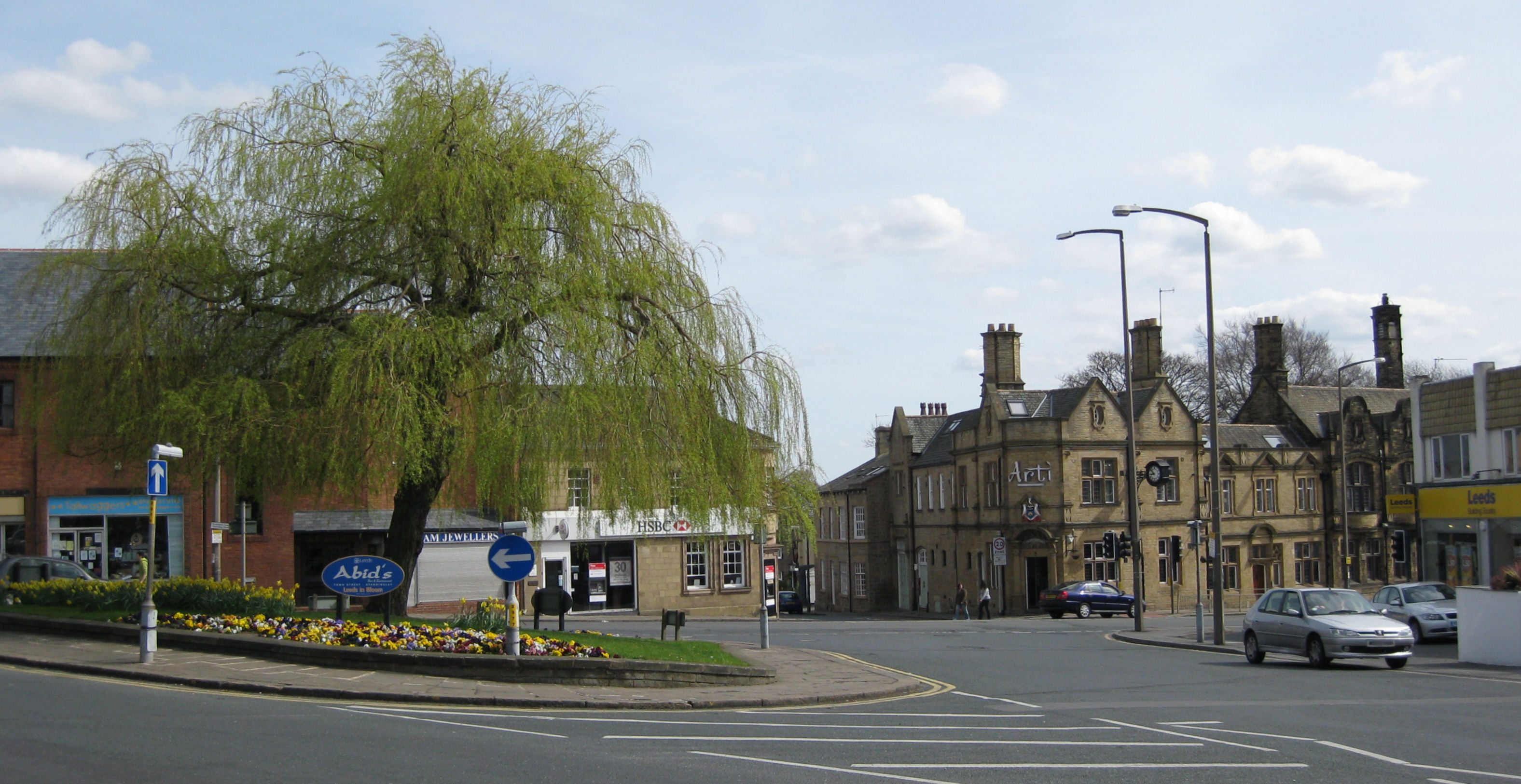 Corner of Stainbeck Lane and Harrogate Road, Chapel Allerton, looking SouthEast with Town Street ahead. Tree is a Weeping Willow.